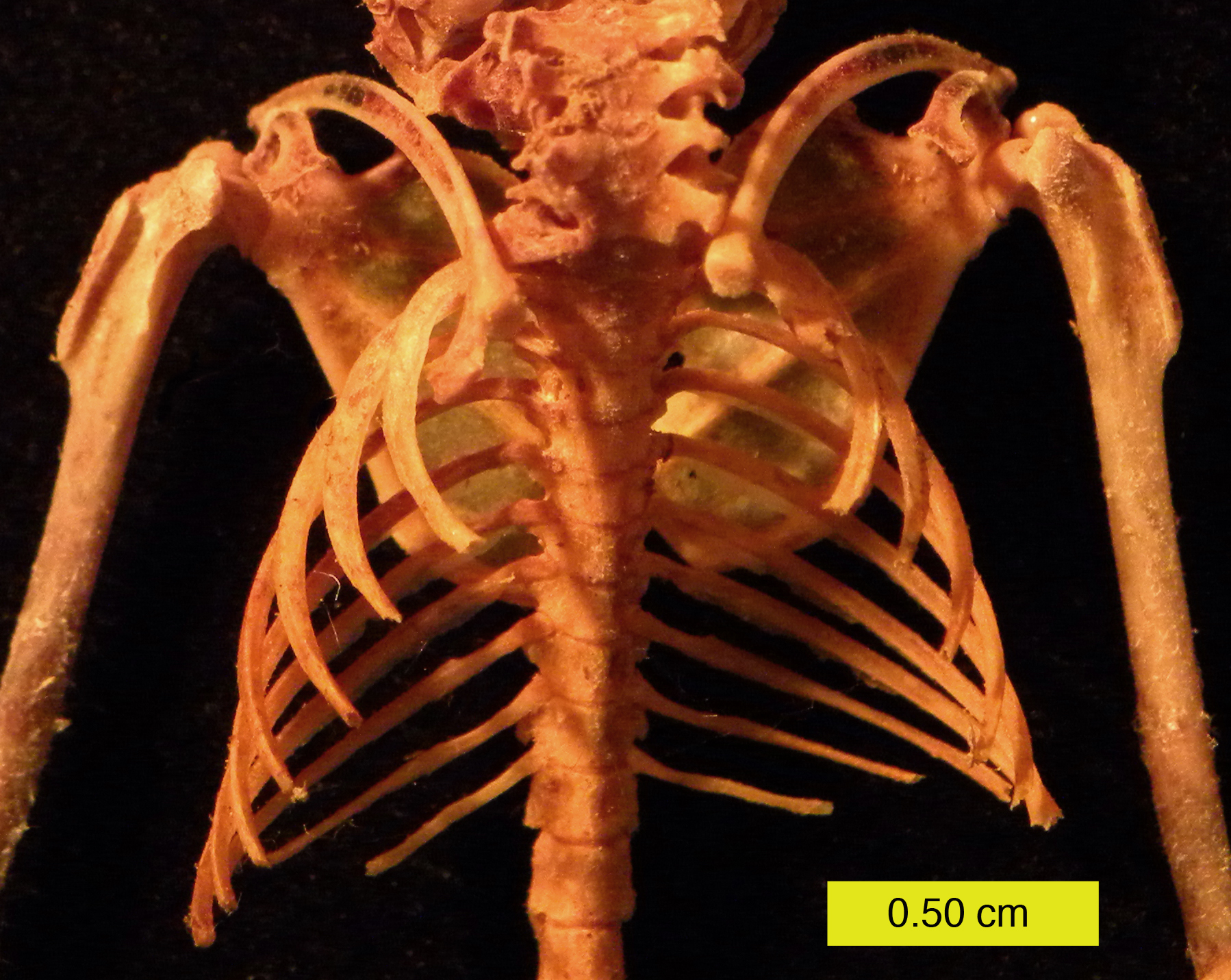 Ribcage of Eptesicus fuscus (Big Brown Bat) from Wooster, Ohio, USA.